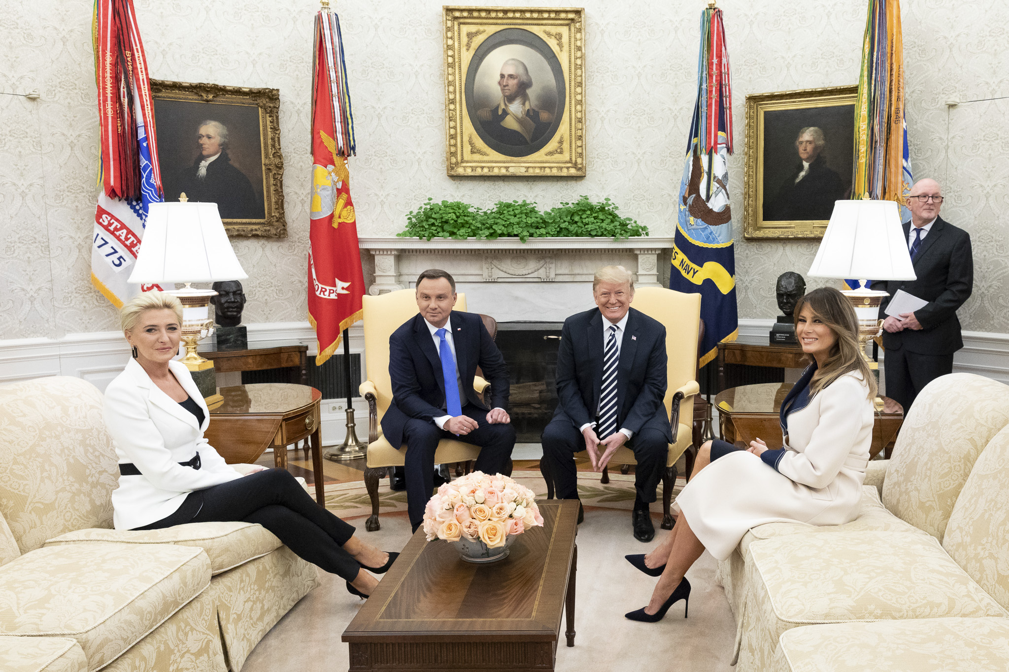 President Donald J. Trump and First Lady Melania Trump with Andrzej Duda, President of the Republic of Poland and his wife Mrs. Agata Kornhauser-Duda Tuesday, Sept. 18, 2018 (Official White House Photo Andrea Hanks)